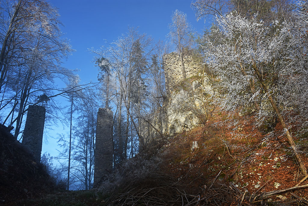 Ruins of the medieval castle, first documented in 1236.